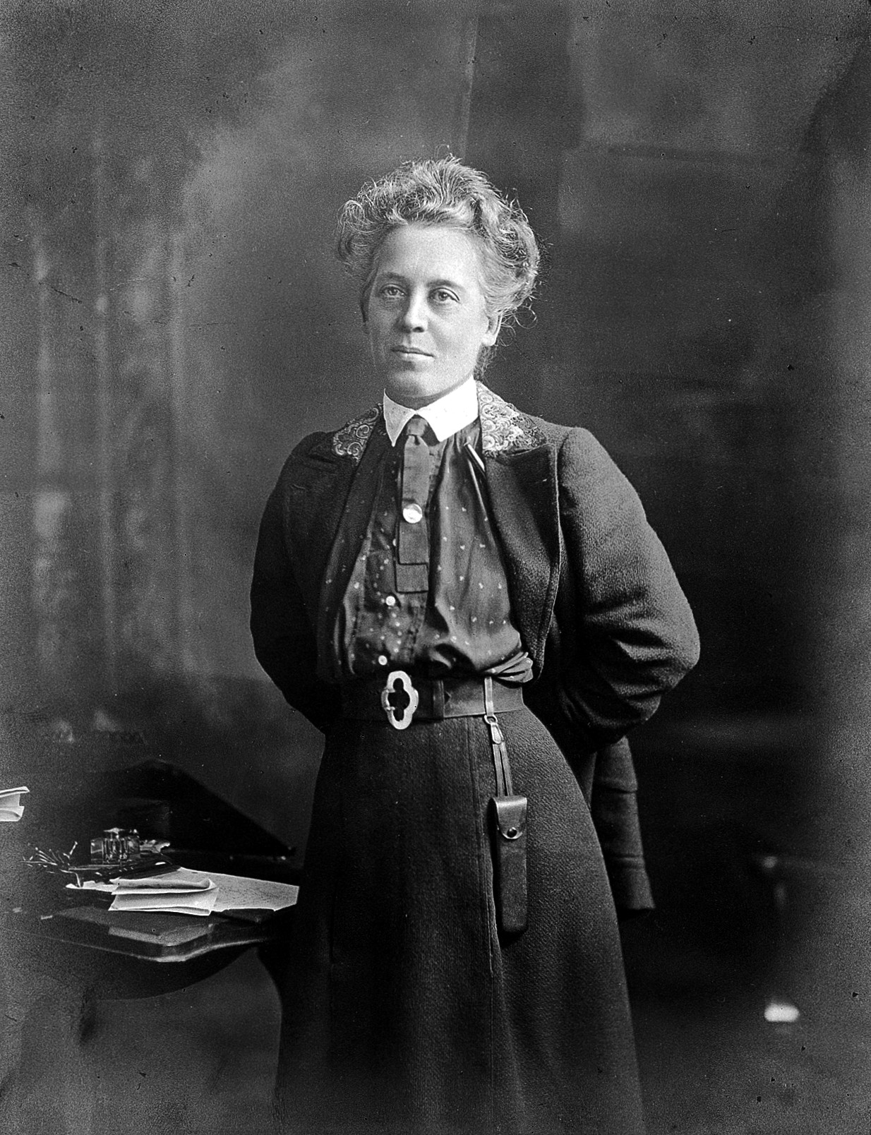 Photograph of Ethel Williams Wellcome Images Keywords: Ethel M. N. Williams